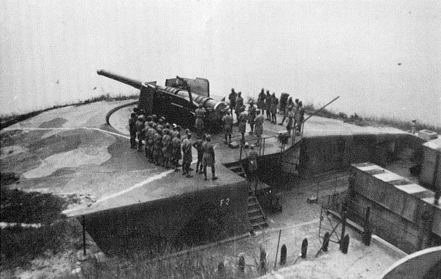 Mount Davis Battery F2